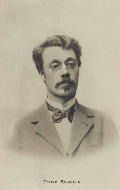 Teuvo Pakkala, Finnish writer